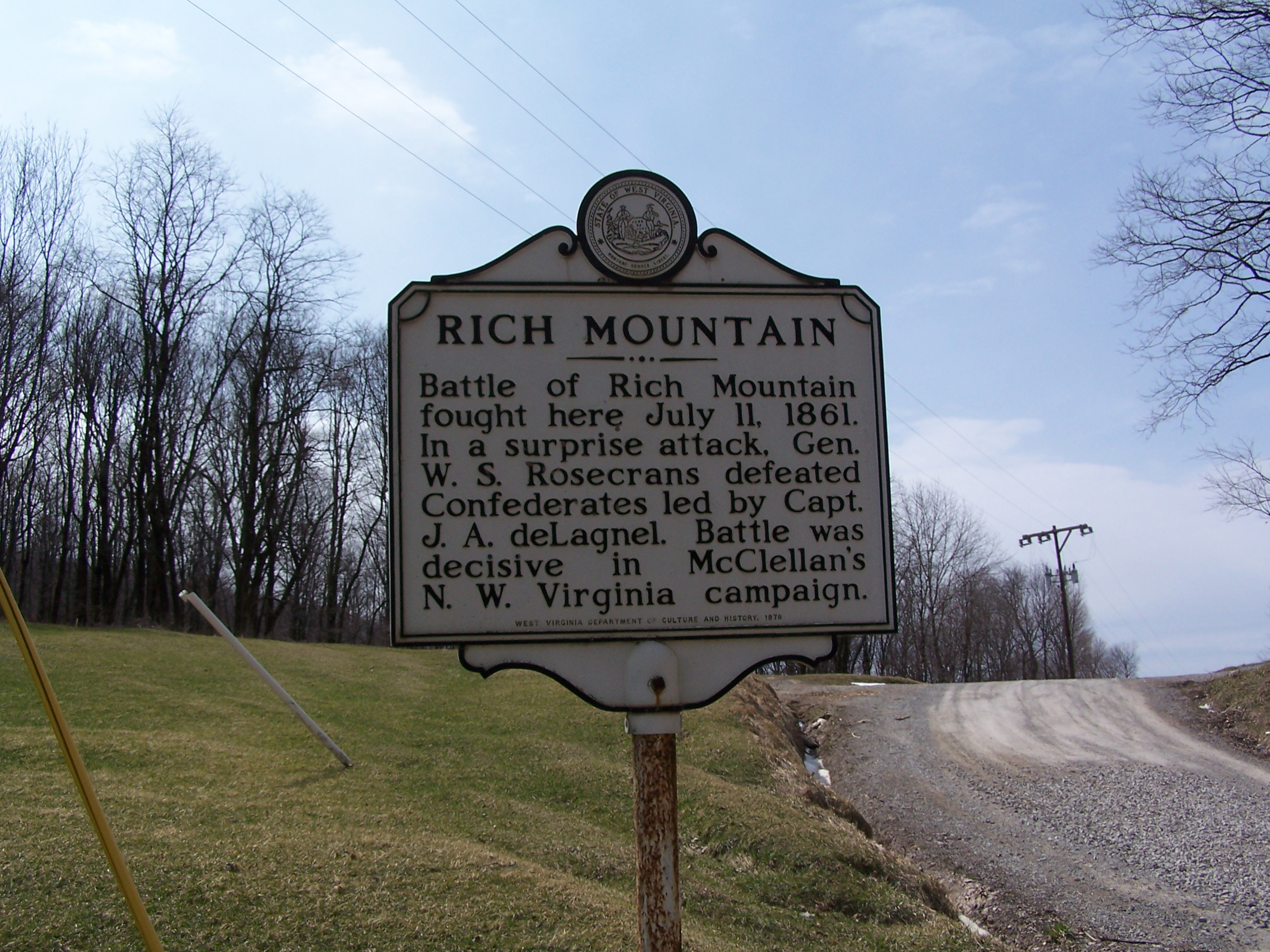 Historical marker on Rich Mountain, part of the Battle of Rich Mountain (American Civil War) in Randolph County, West Virginia.